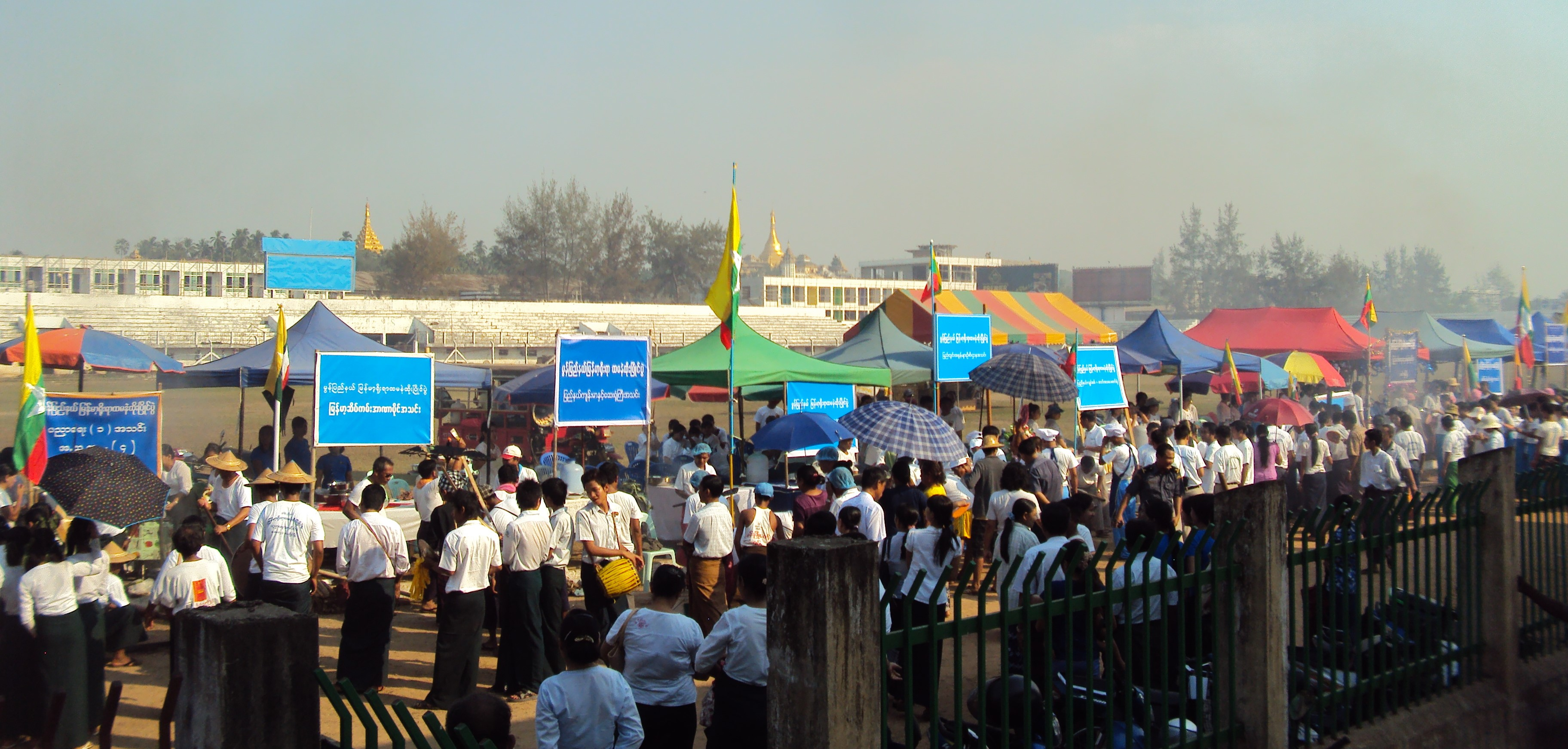 Hta Ma Nae Competitions of Mon State Departments, Yamanya Stadium, Mawlamyine မြန်မာဘာသာ: မွန်ပြည်နယ် ဌာနဆိုင်ရာပေါင်းစုံ မြန်မာ့ရိုးရာ ထမနဲ ပြိုင်ပွဲ၊ ရာမညအားကစားကွင်း၊ မော်လမြိုင်